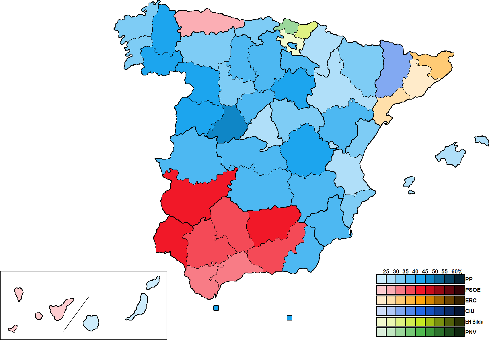 Provincial results for the 2014 European Parliament election in Spain.